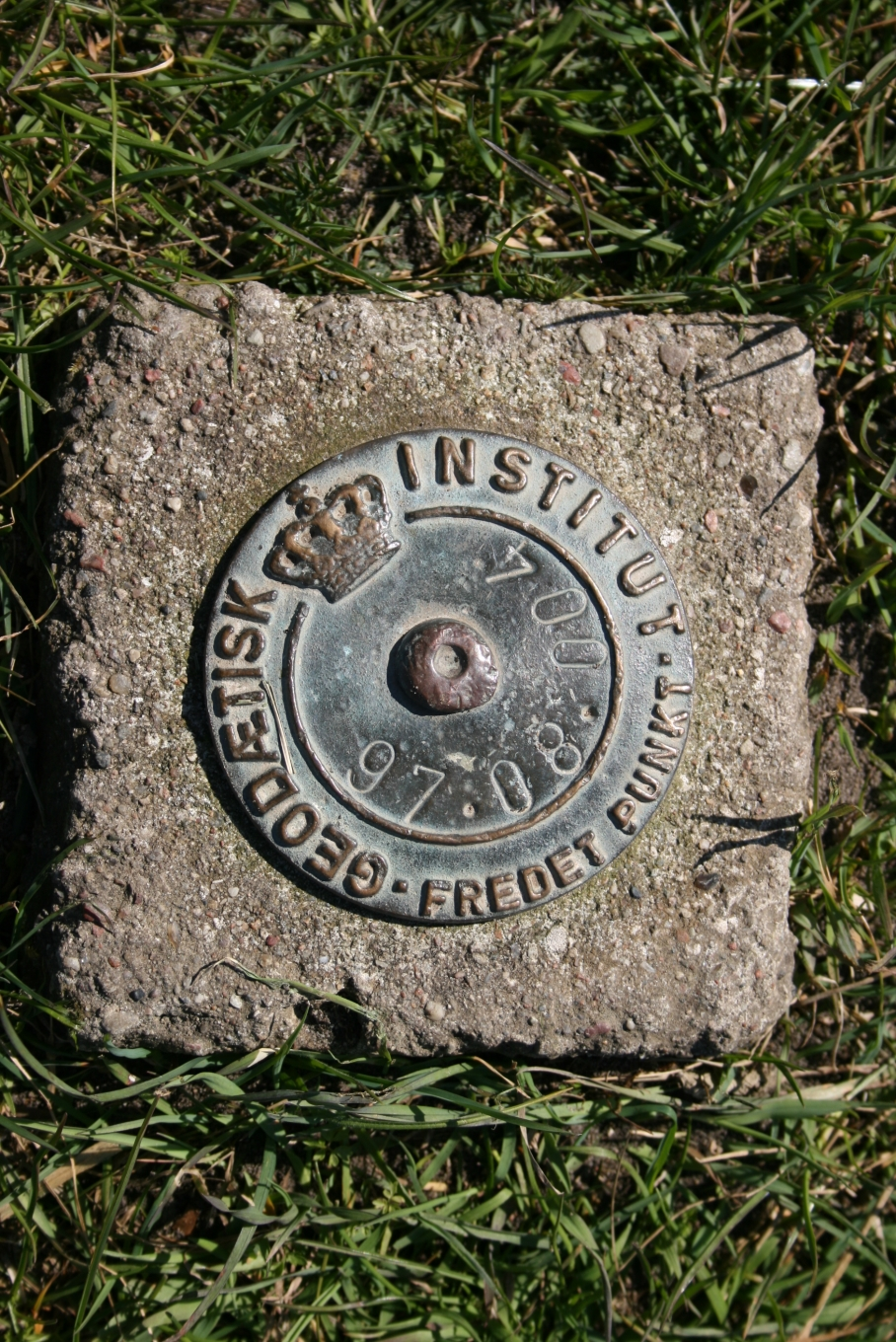 The trigonometric point at the top of Jernhatten